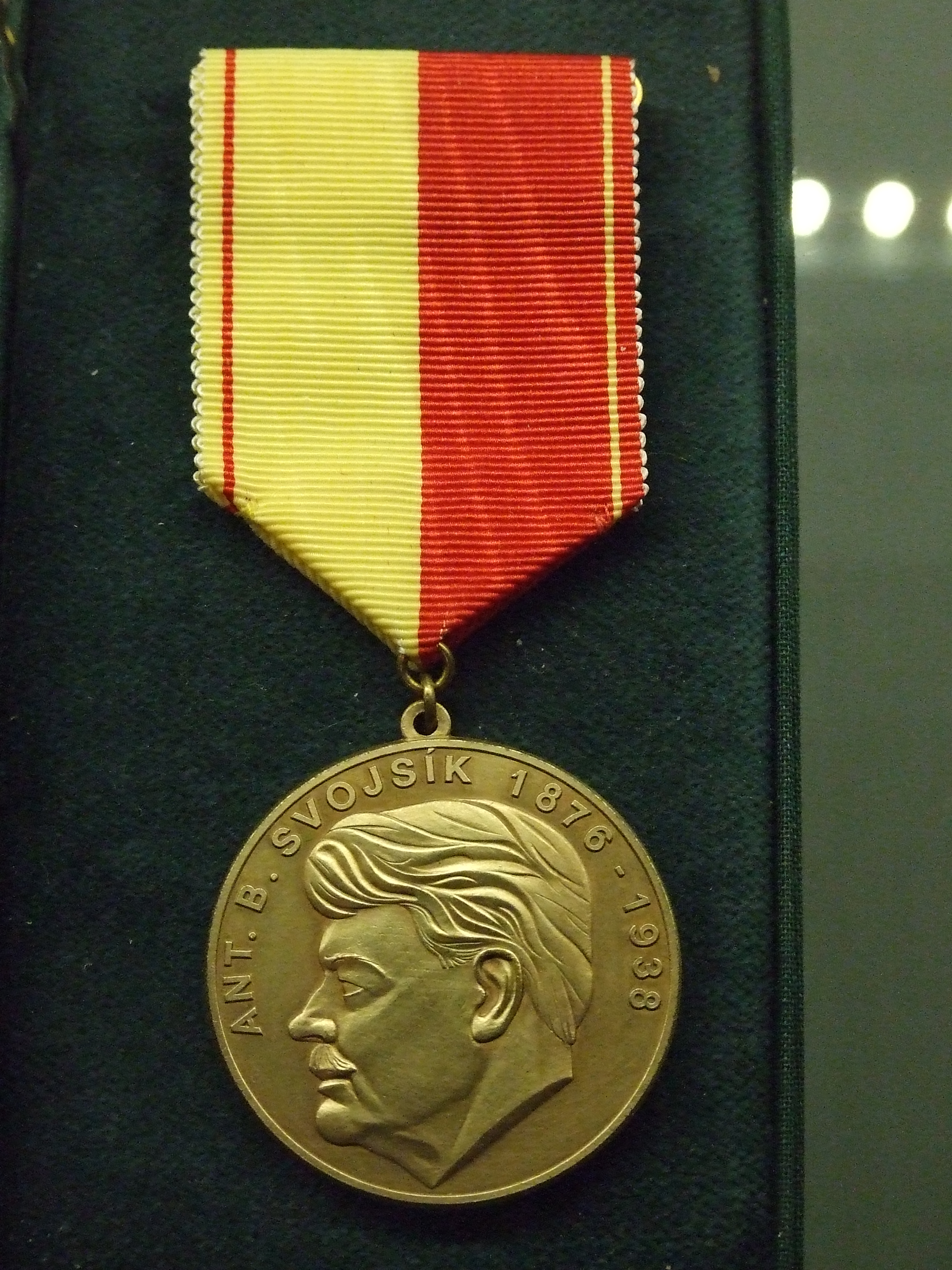 The Republic exhibition, National Museum in Prague